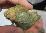 Hexaplex Trunculus camouflaged in sea fouling; caught the previous day in a lagoon just south of Haifa